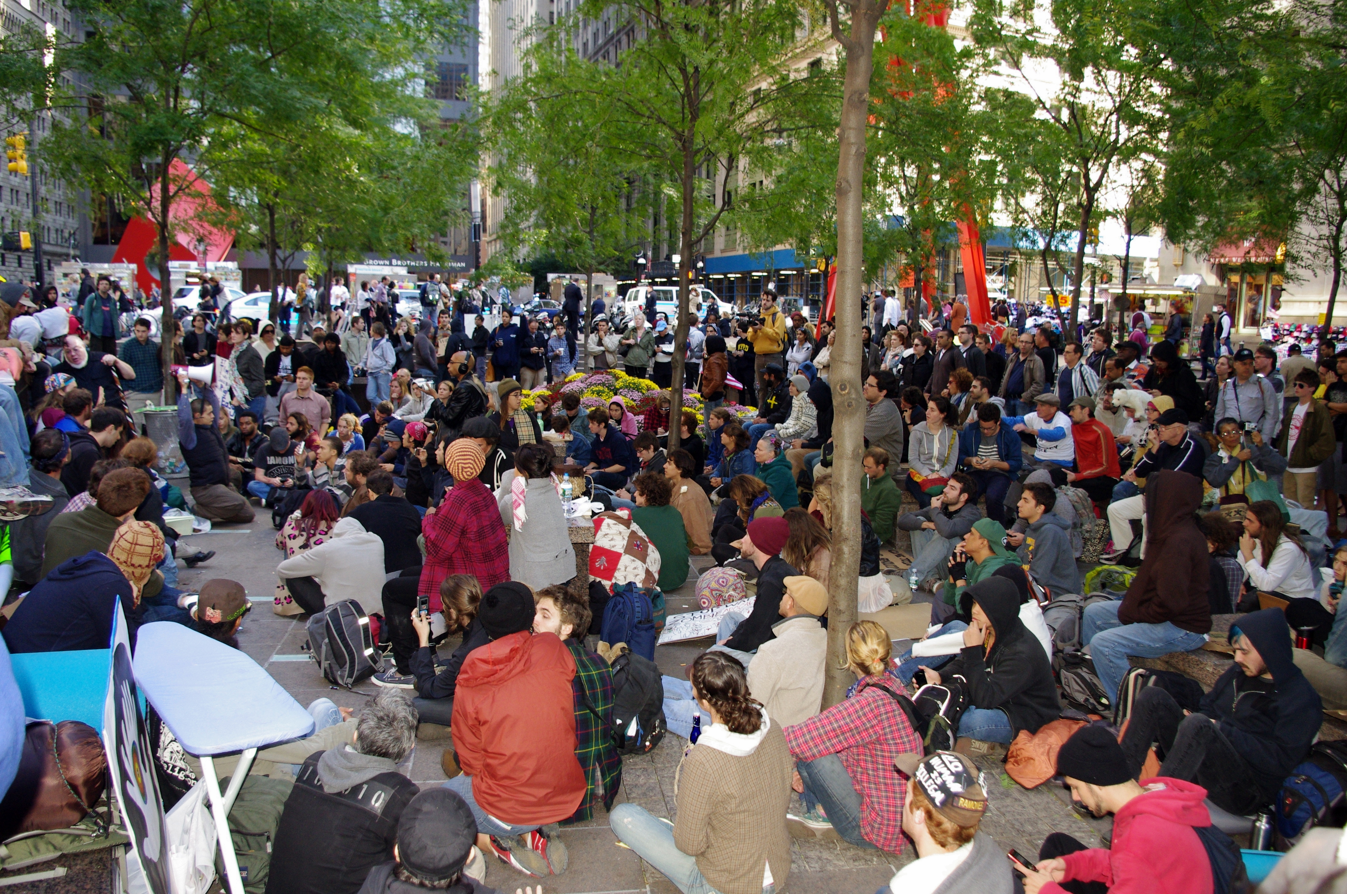 Day 2, September 18, of the protest Occupy Wall Street, a protest against corporatism and the influence of money in government that aims to occupy New York's financial district for several months, and supported by Anonymous and AdBusters. The protest started on Saturday, September 17.